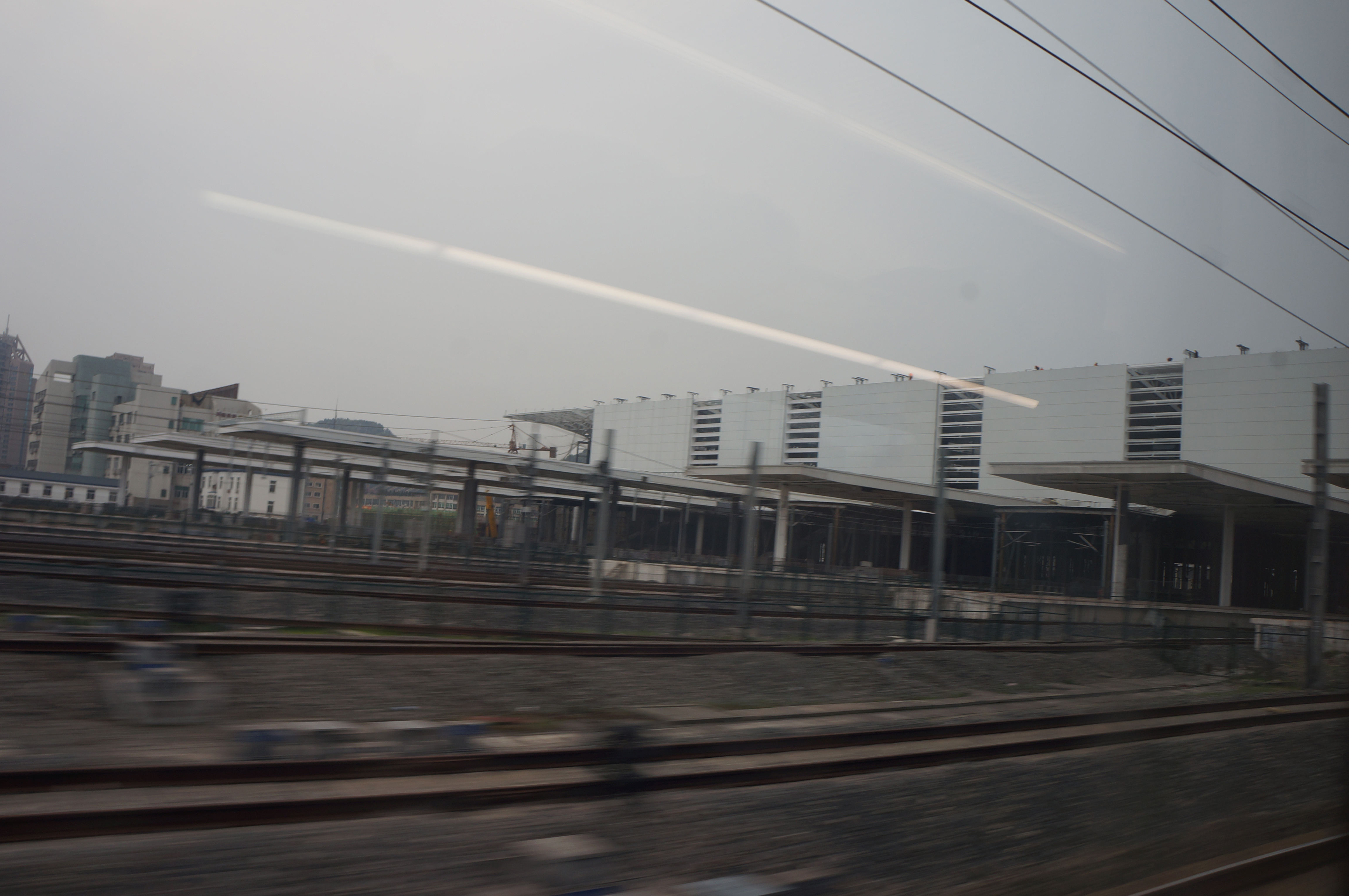 201703 Hangzhounan Railway Station